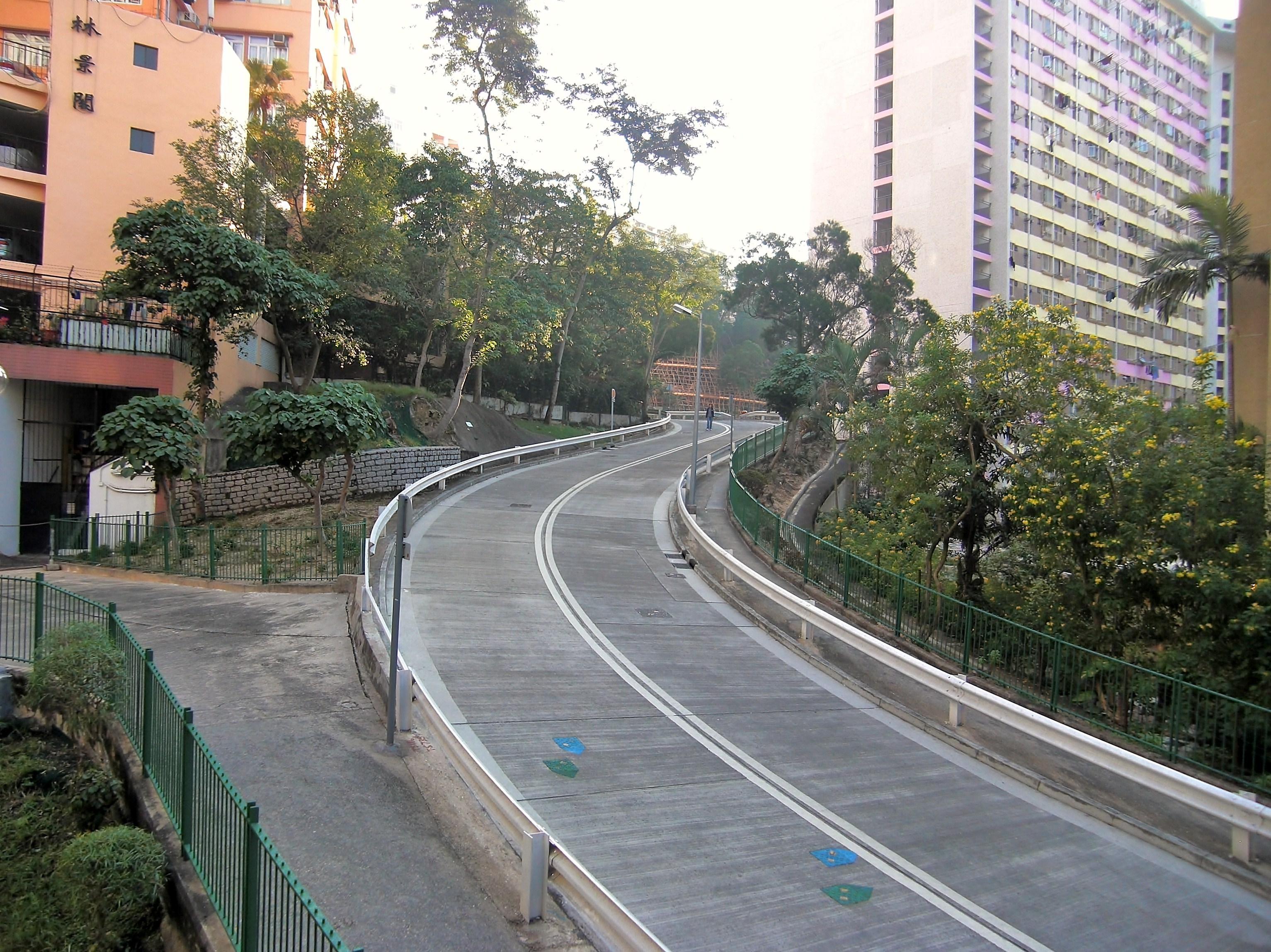 A view of Unnamed Road in Lok Wah Estate, Hong Kong. This road connect both Kung Lok Road and Lok Wah Estate Access Road.